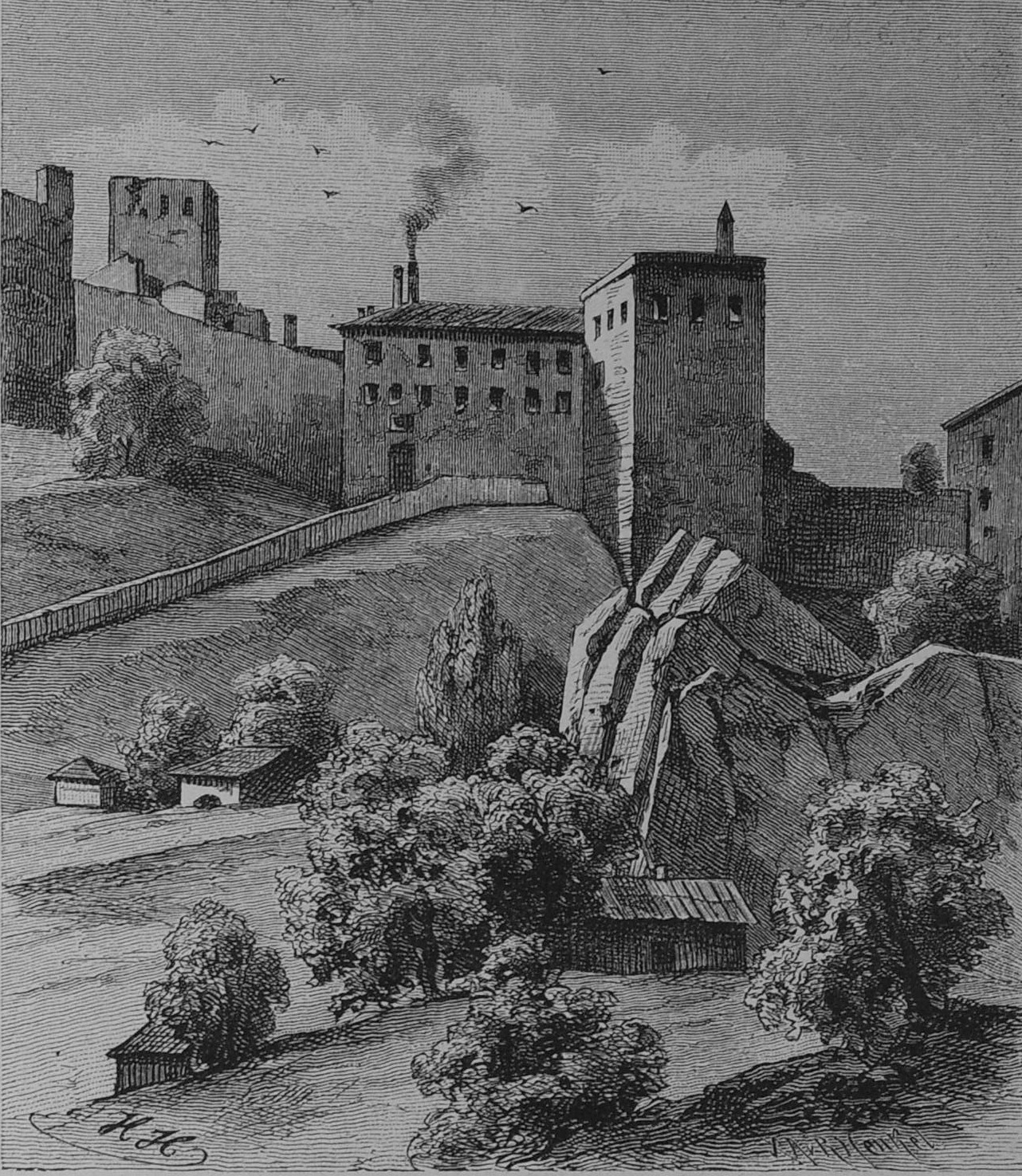 caption: "Festung Stolatz in der Herzegowina. Nach einer Skizze von F. Weibel auf Holz gezeichnet von H. Heubner."